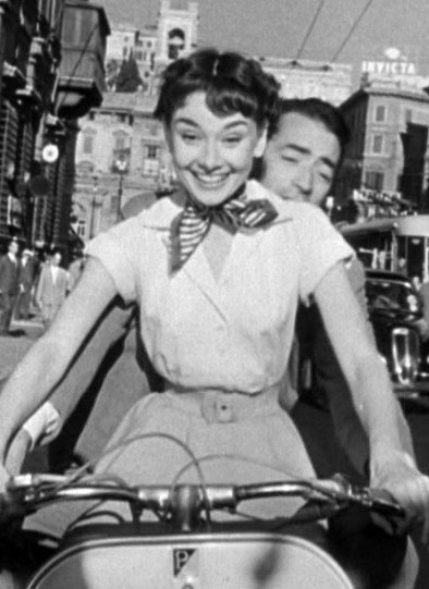 Cropped screenshot of Audrey Hepburn and Gregory Peck from the trailer for the film Roman Holiday.